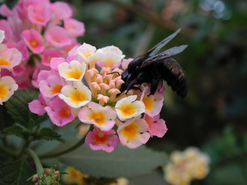 Xylocopa californica Carpenter Bee. Maricopa Co., Arizona, USA. This bee is attempting to 'steal' nectar from unopened flowers thereby bypassing pollination.